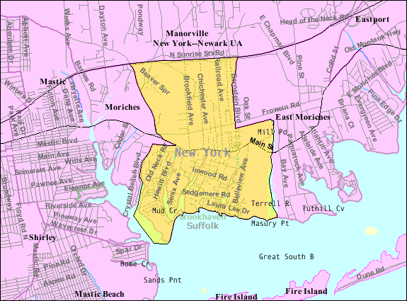 U.S. Census 2000 reference map for Center Moriches